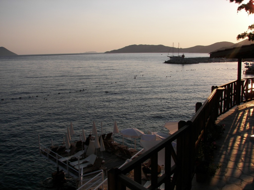 Kaş at Dusk